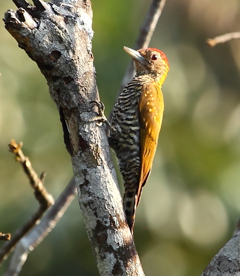 Golden-collared Woodpecker (male) at Manaus - AM - Brazil